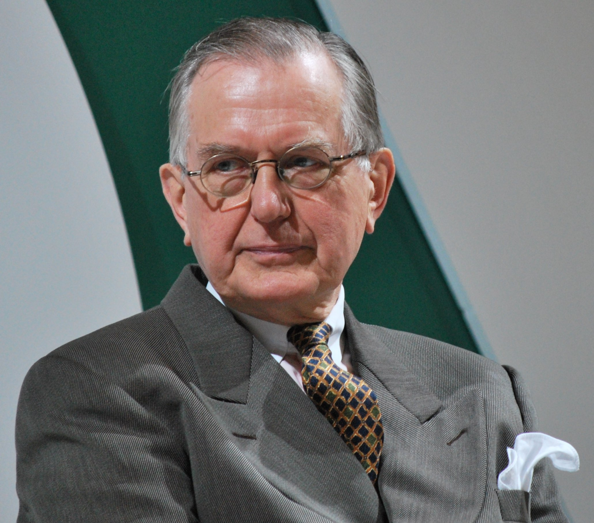 Matti Klinge, Finnish historian, Helsinki Book Fair 2008.